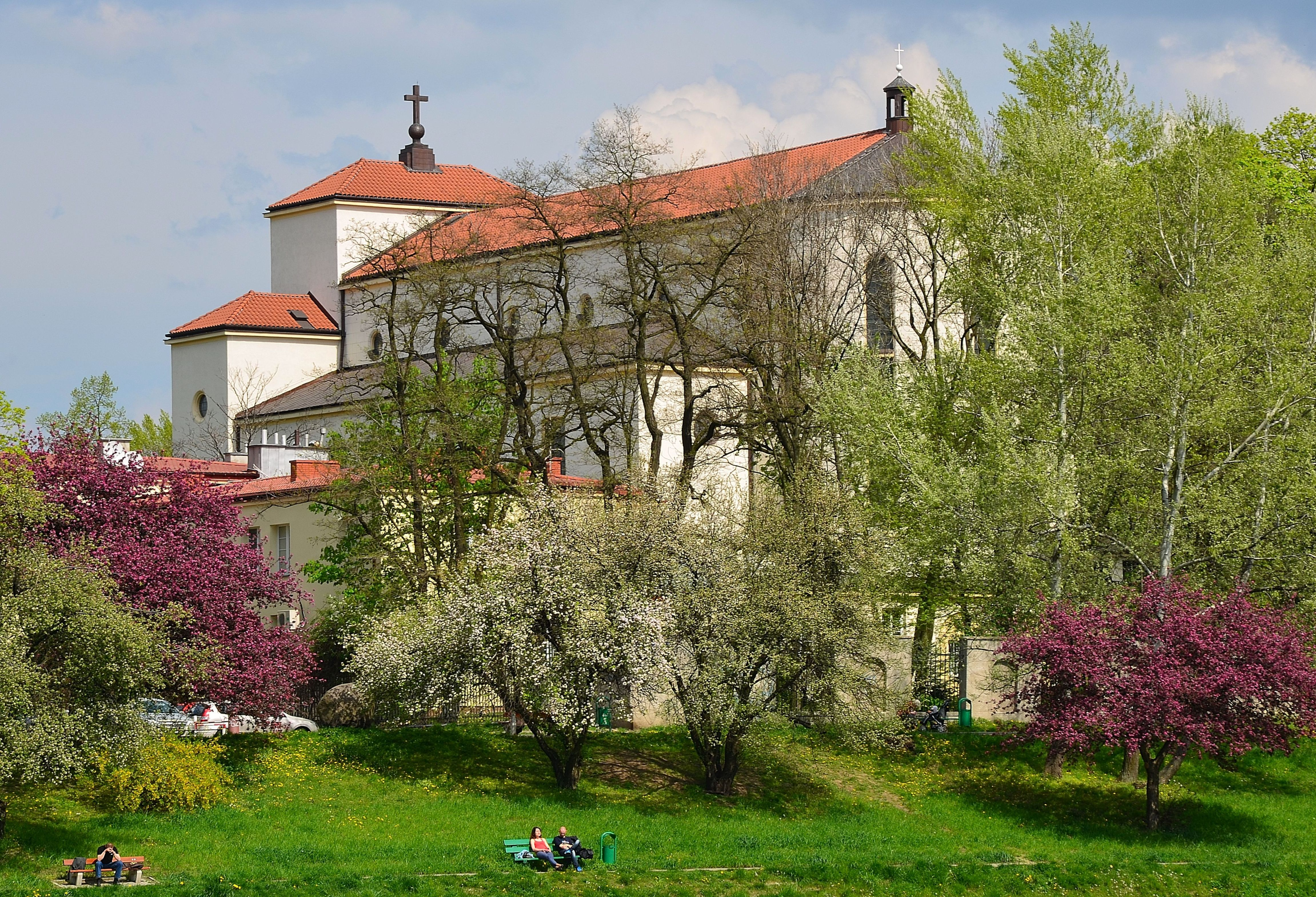 Our Lady of Victory church in Warsaw viewed from Jeziorko Kamionkowskie